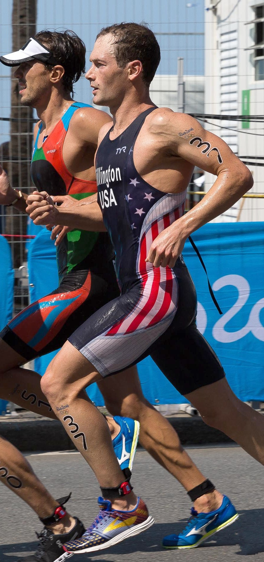 Athletes during men's triathlon competition, Copacabana ,Rio de Janeiro